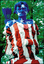 Image is of Tecumseh at the US Naval Academy. It is common for Tecumseh to be painted for Parents' Weekend in August, Homecoming in the fall, before Army-Navy contests, and for Commissioning Week in May.